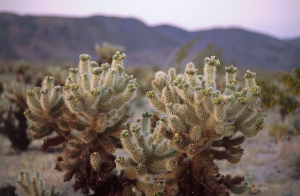 Cylindropuntia bigelovii — Teddy-bear cholla (cactus). In Anza-Borrego Desert State Park, Colorado Desert, southern California. In April 2004. Credits Photographer: Sascha Moll, Hamburg/Germany